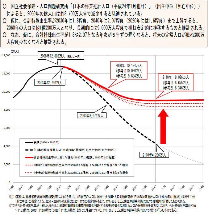 Changes in Japan's population